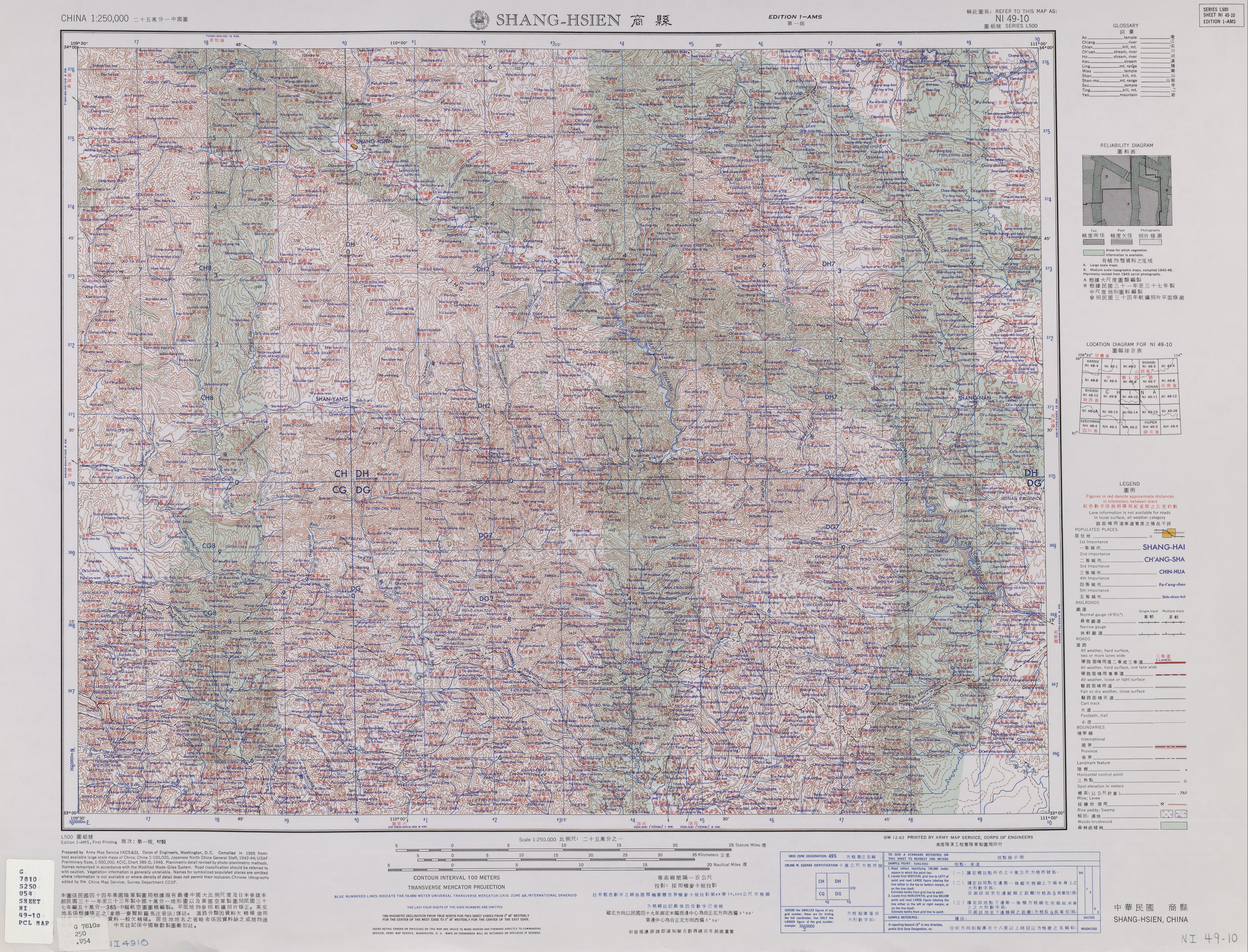 China AMS Topographic Maps